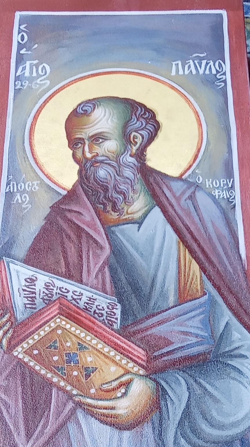 Mural of Saint Paul the Apostle inside a Greek Orthodox Church